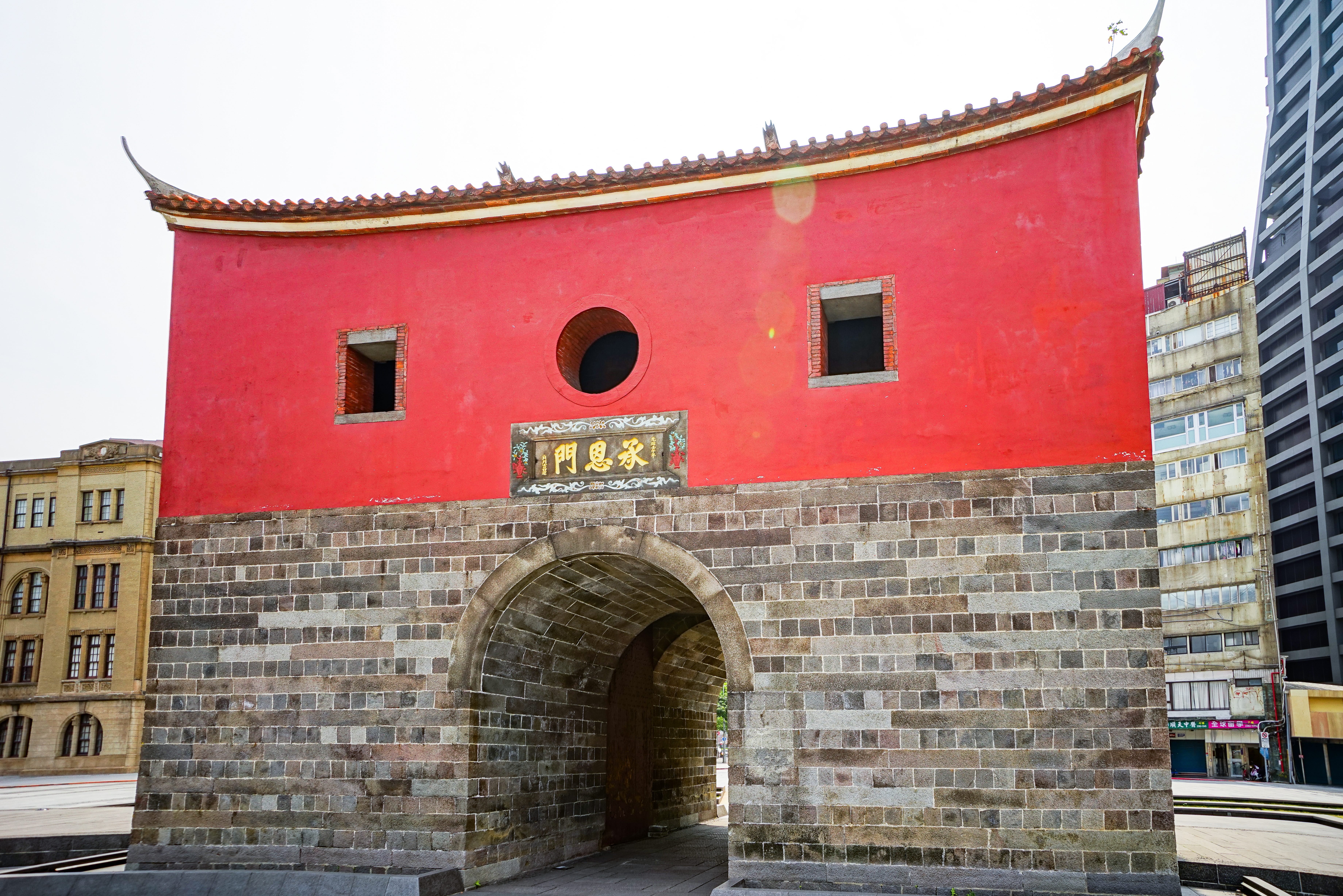 Cheng-En Gate (Beimen)